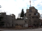 The building of the archives of Ohrid, a department of the State Archive of the Republic of Macedonia. This media file is produced by Wikipedian in Residence in Category:Wikipedian in Residence at DARM in 2016.